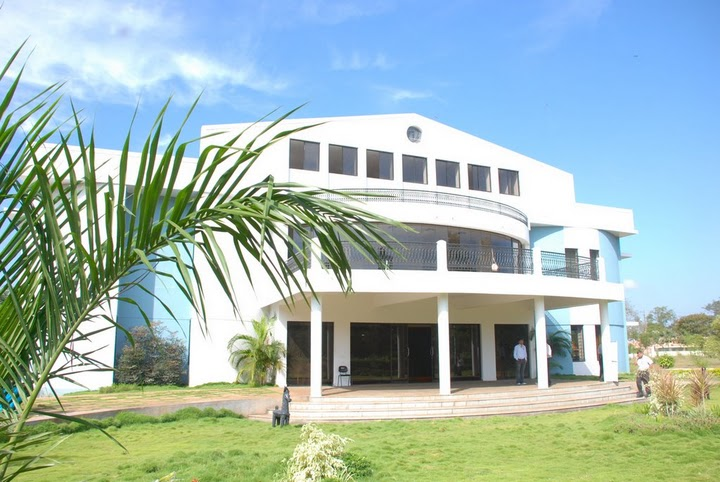 ISiM Building, Manasagangothri Campus, University of Mysore, Mysore, India